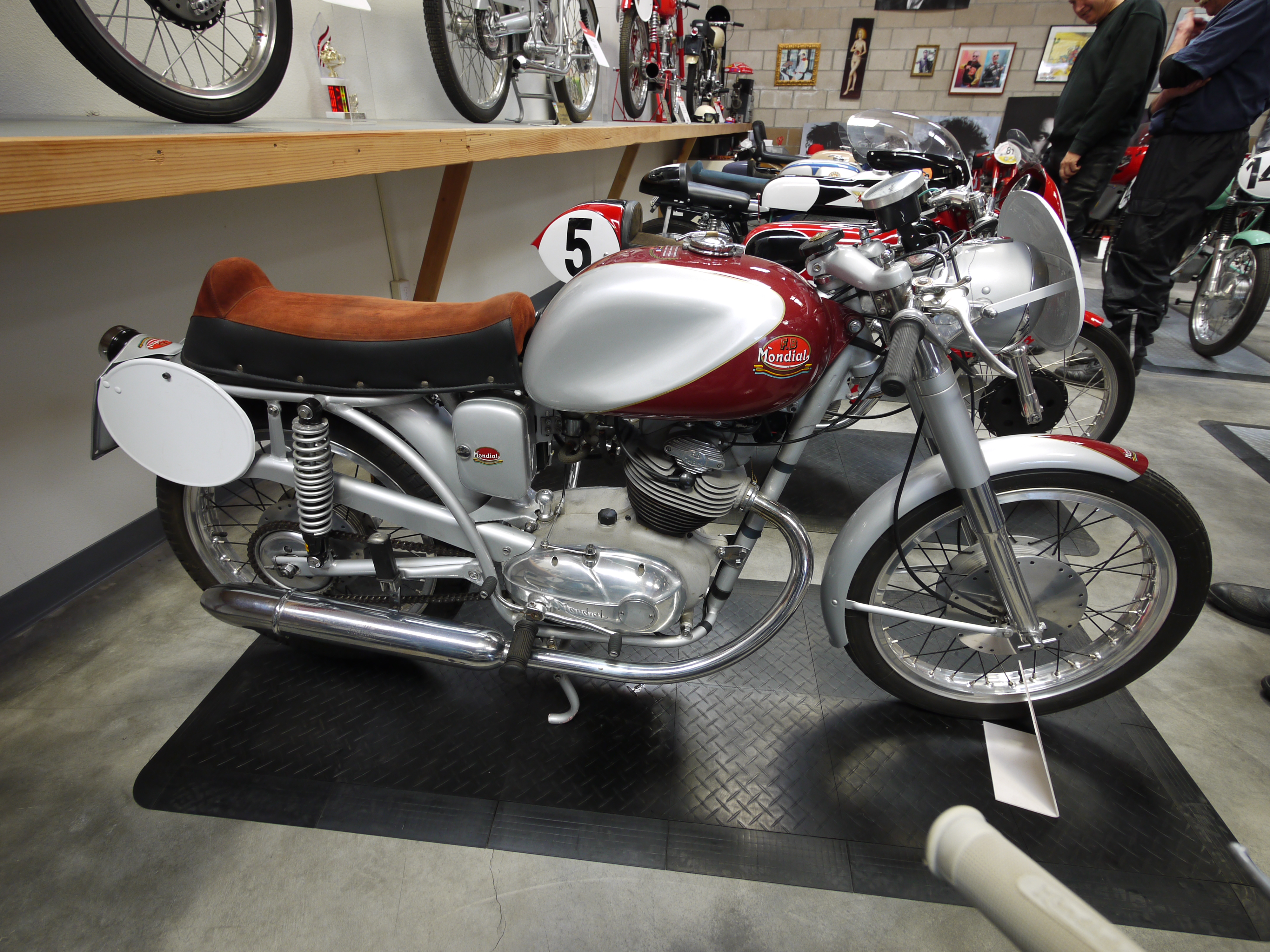 FB Mondial 125 Gran Sport, 1956, MSDS